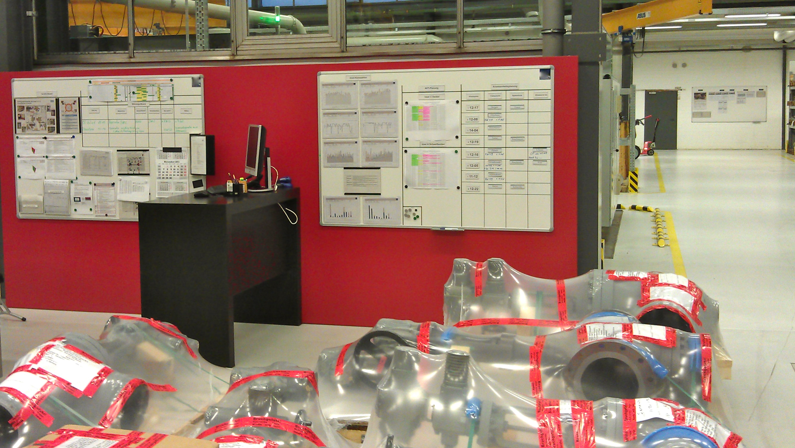 5S: Coordination place